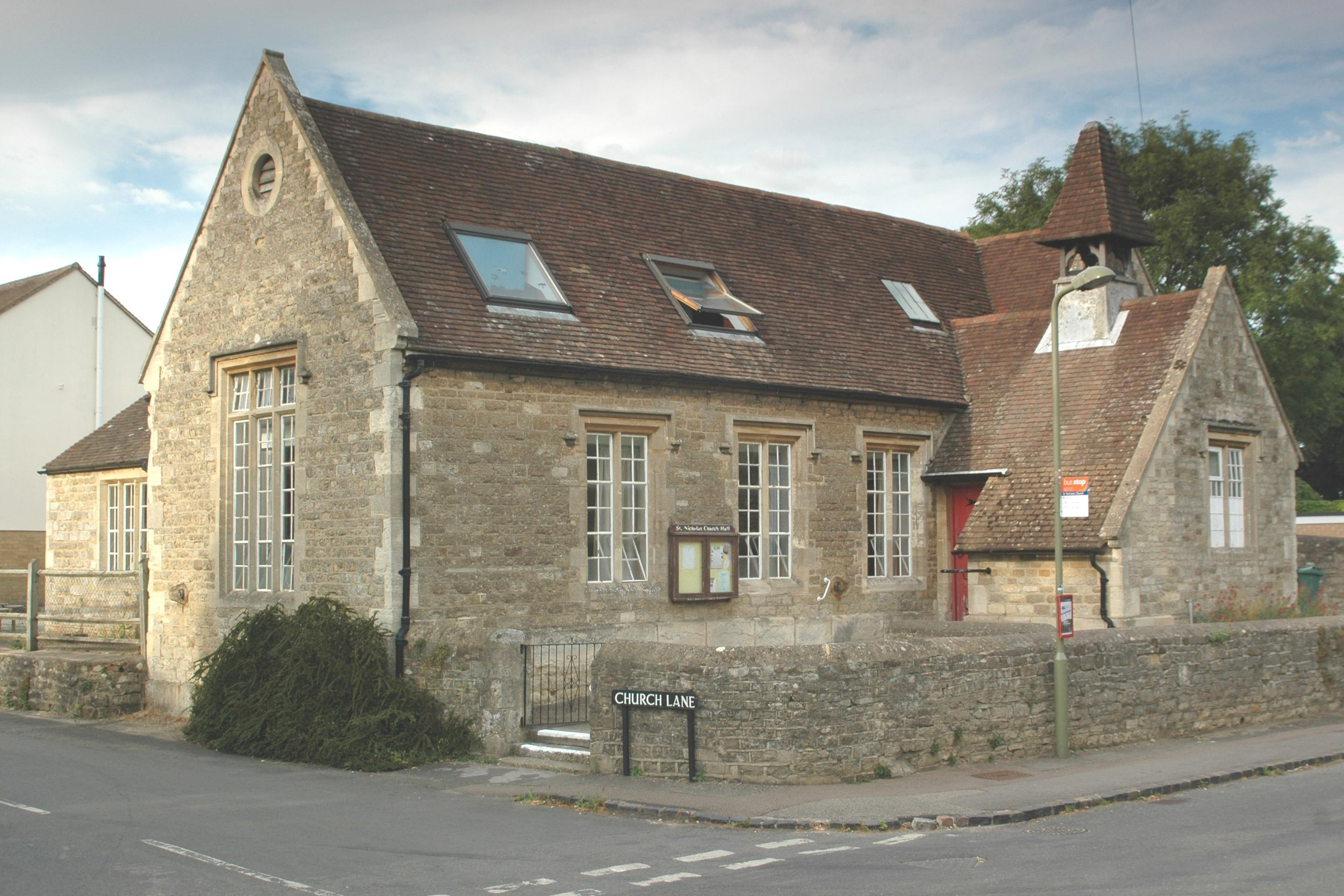 Former parish school at Marston, Oxford, now St. Nicholas' church hall